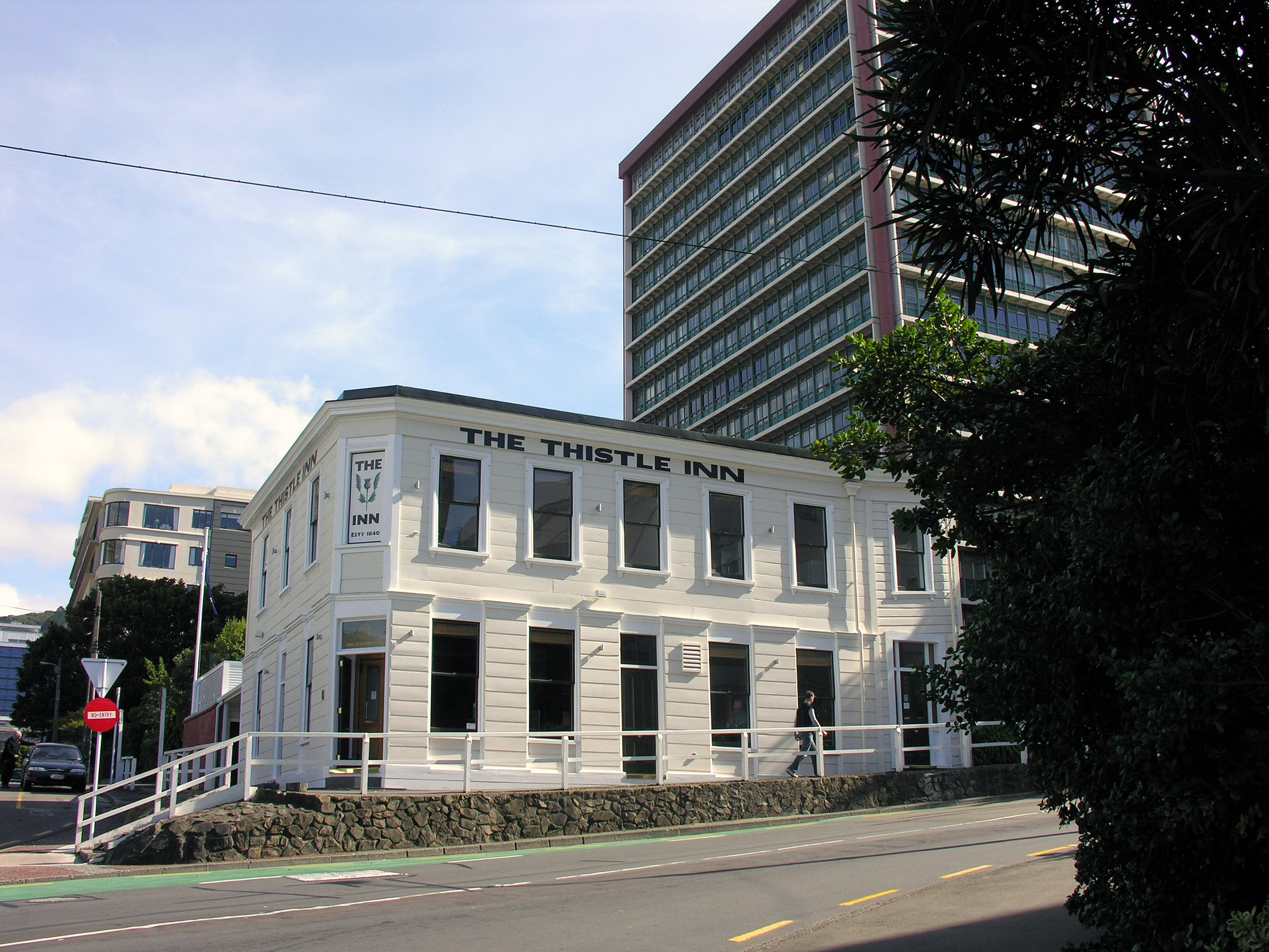 NZ's oldest operating pub - since 1840.